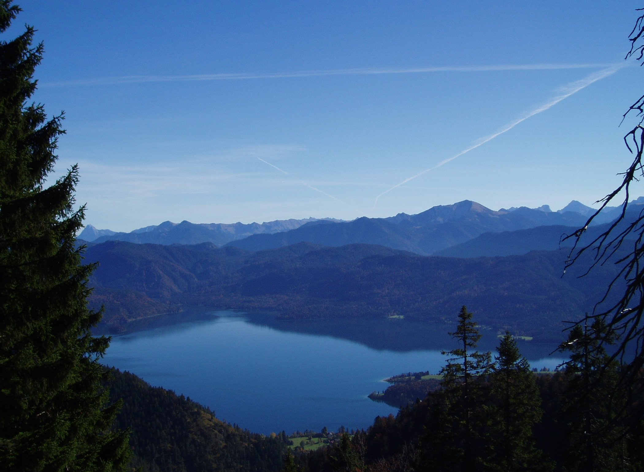 The lake Walchensee